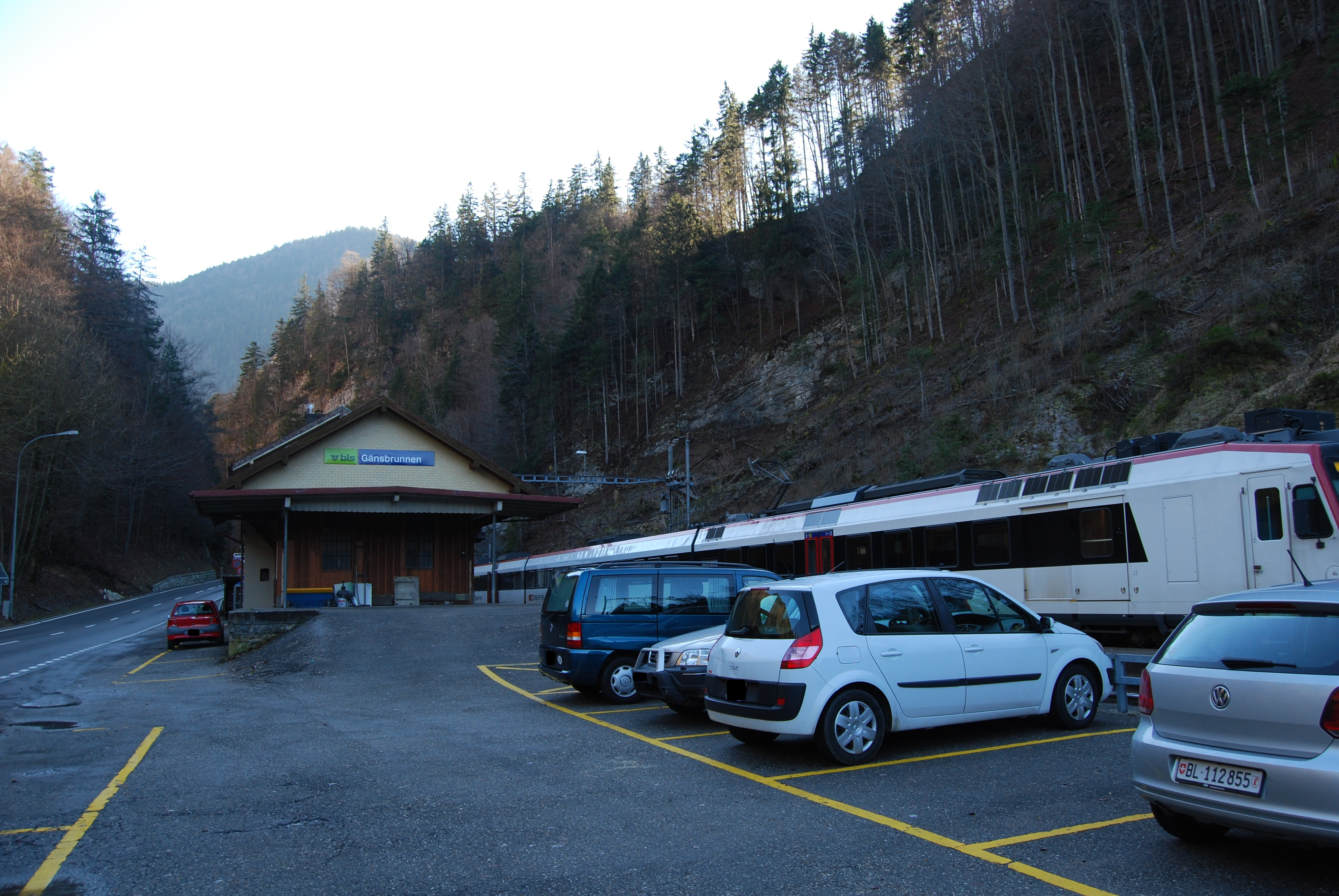 Train station of Gänsbrunnen, canton of Solothurn, Switzerland